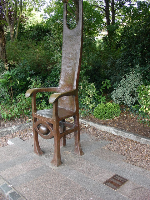 Jester's Chair - Dermot Morgan. Erected off a leafy walkway within Merrion Square, the Jester's Chair has an adjacent plaque, stating it is in memory of comic actor Dermot Morgan (best known for playing the lead role in CH4's 'Father Ted').